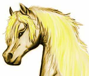 The norse mythological horse Gullfaxi